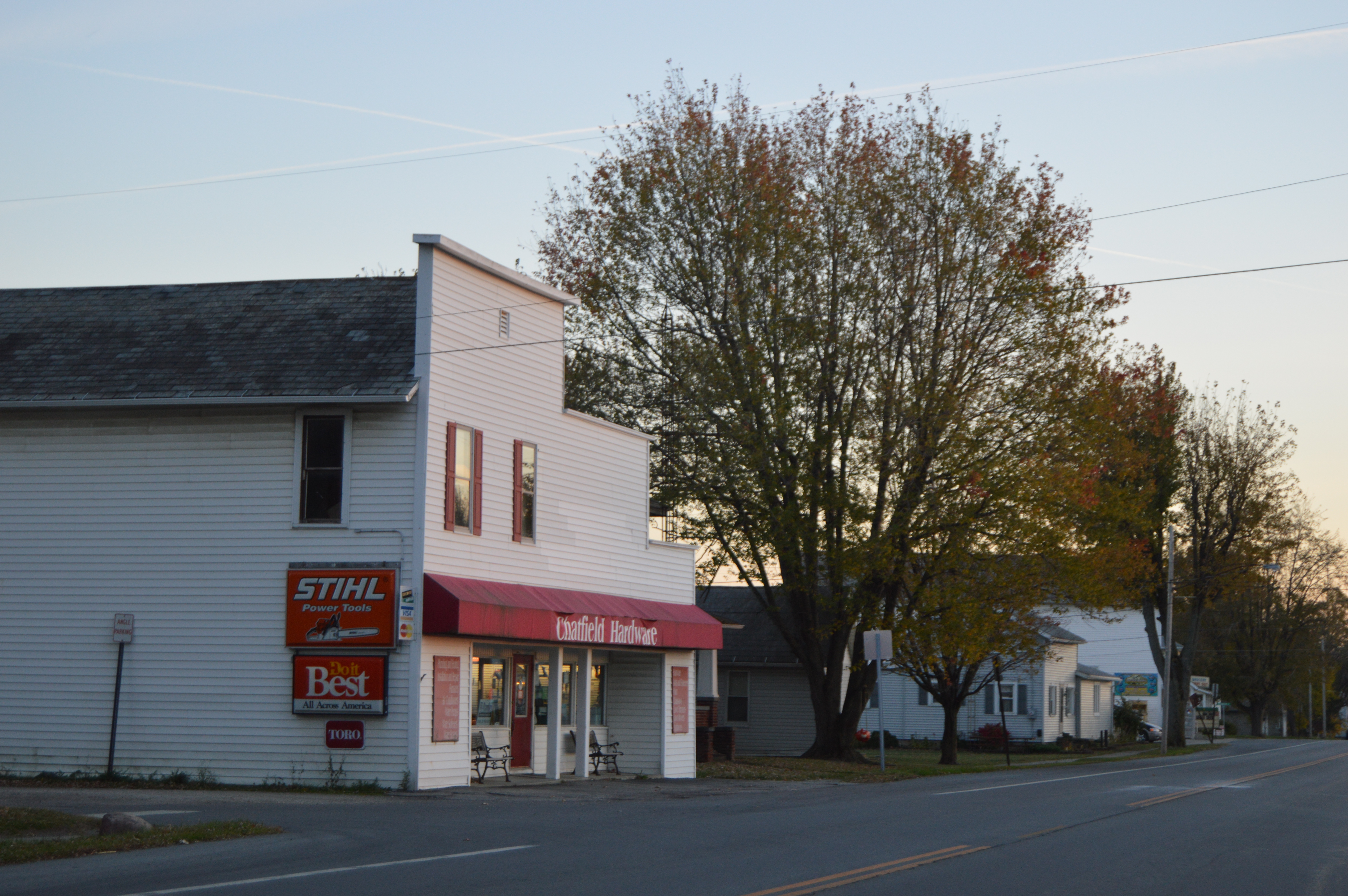 Hardware store and houses in Chatfield, Ohio, United States, seen looking south on Sandusky Avenue (State Route 4) at Fourth Street.